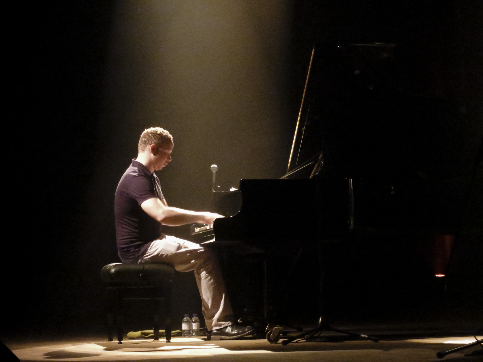 Craig Taborn